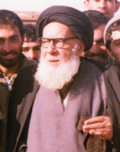 Ayatollah Seyyed Reza Bahaoddini Alongside Ali Sayyad Shirazi on the front of the Iran-Iraq War